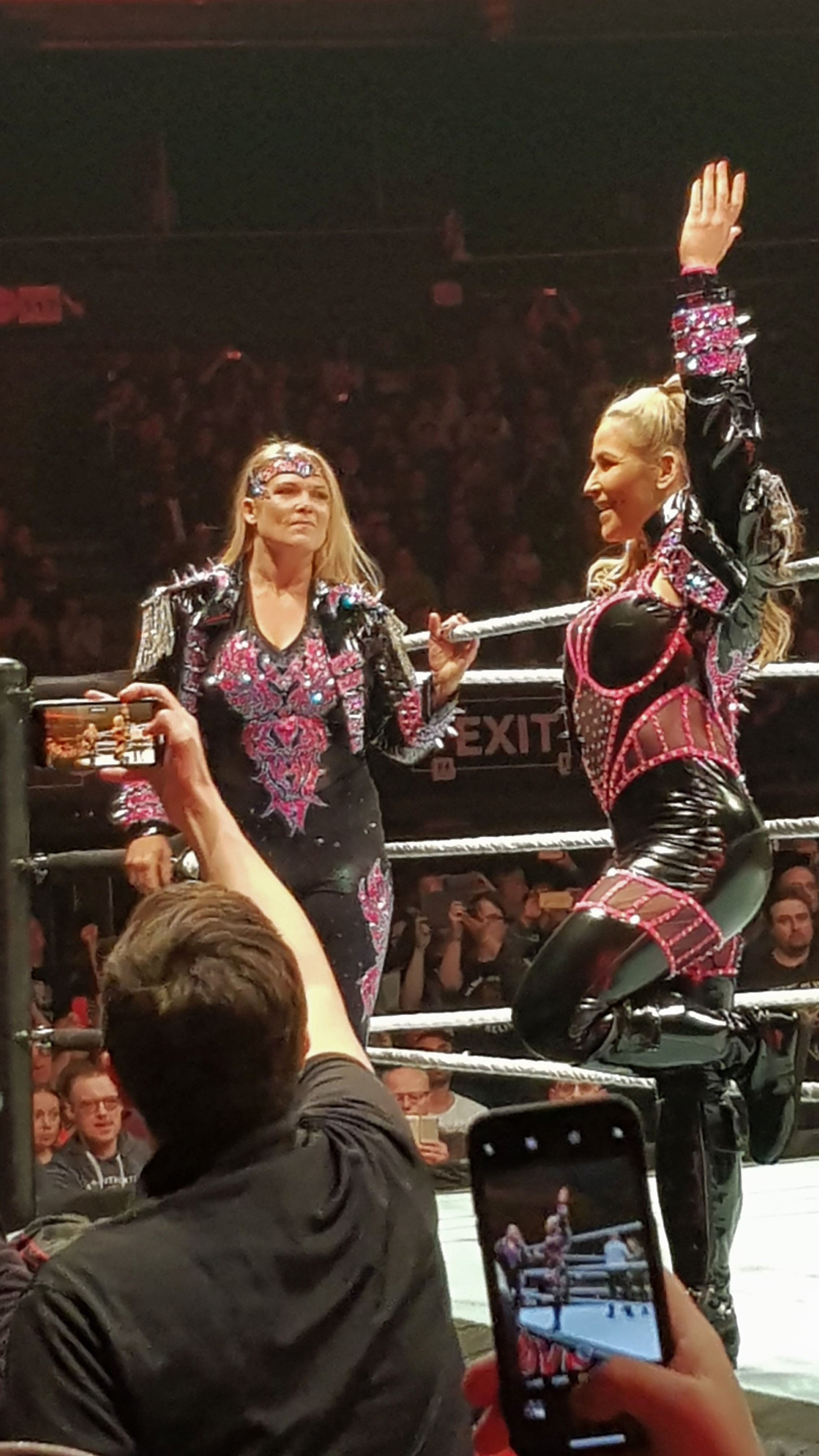 Wrestlers Beth Phoenix and Natalya, collectively known as the Divas of Doom, in May 2019